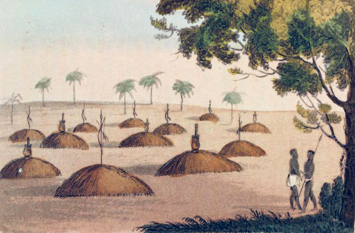 Graves of the Sereres